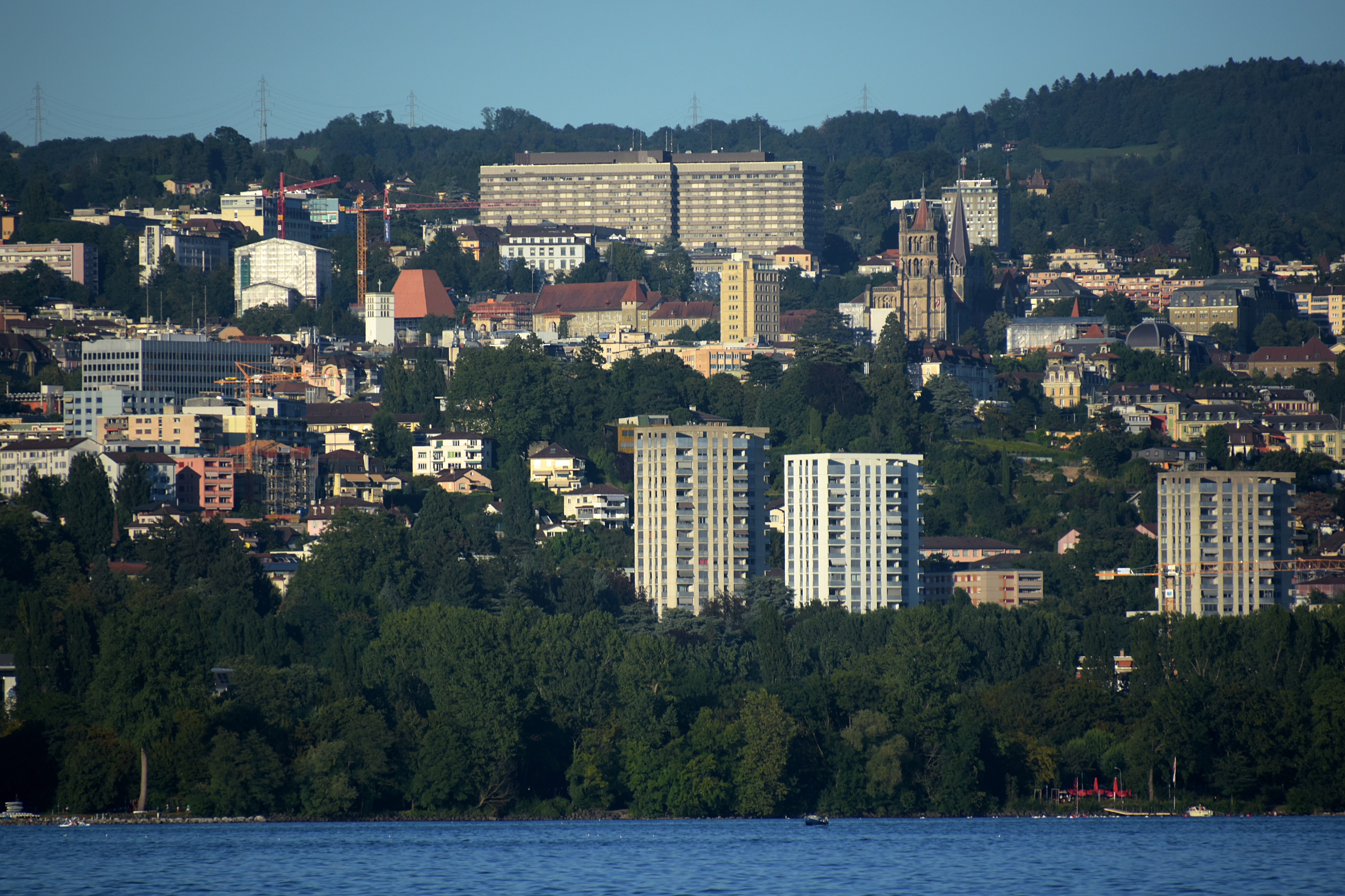 View of Lausanne (VD), Swltzerland from the shore of lake Geneva in St-Sulpice (VD), Switzerland.